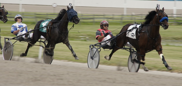 Standardbreds race during Harness Racing at Raceway Park in Toledo, Ohio